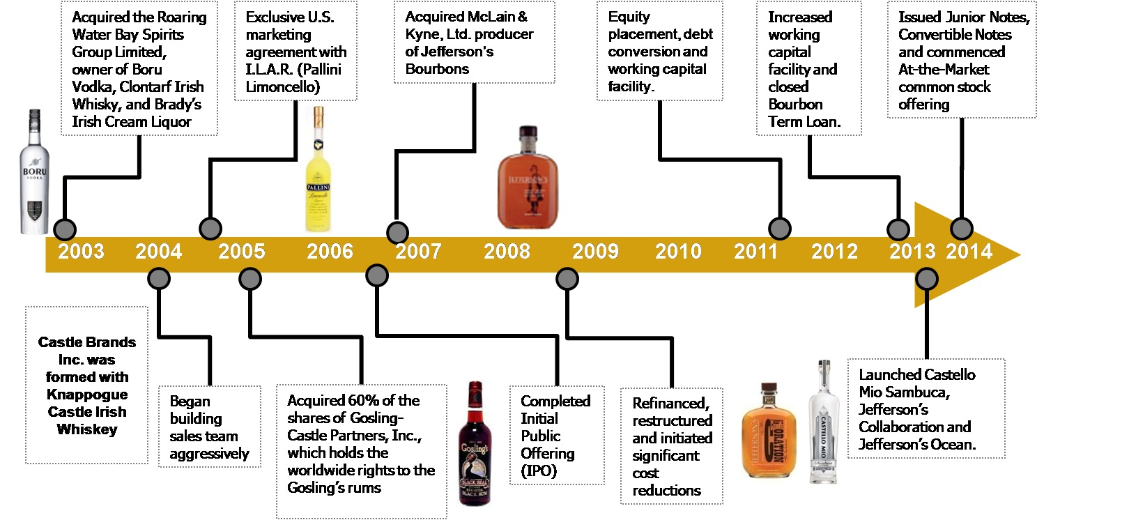 A timeline illustrating the years in which various brands were acquired by beverage company Castle Brands Inc Castle Brands Inc